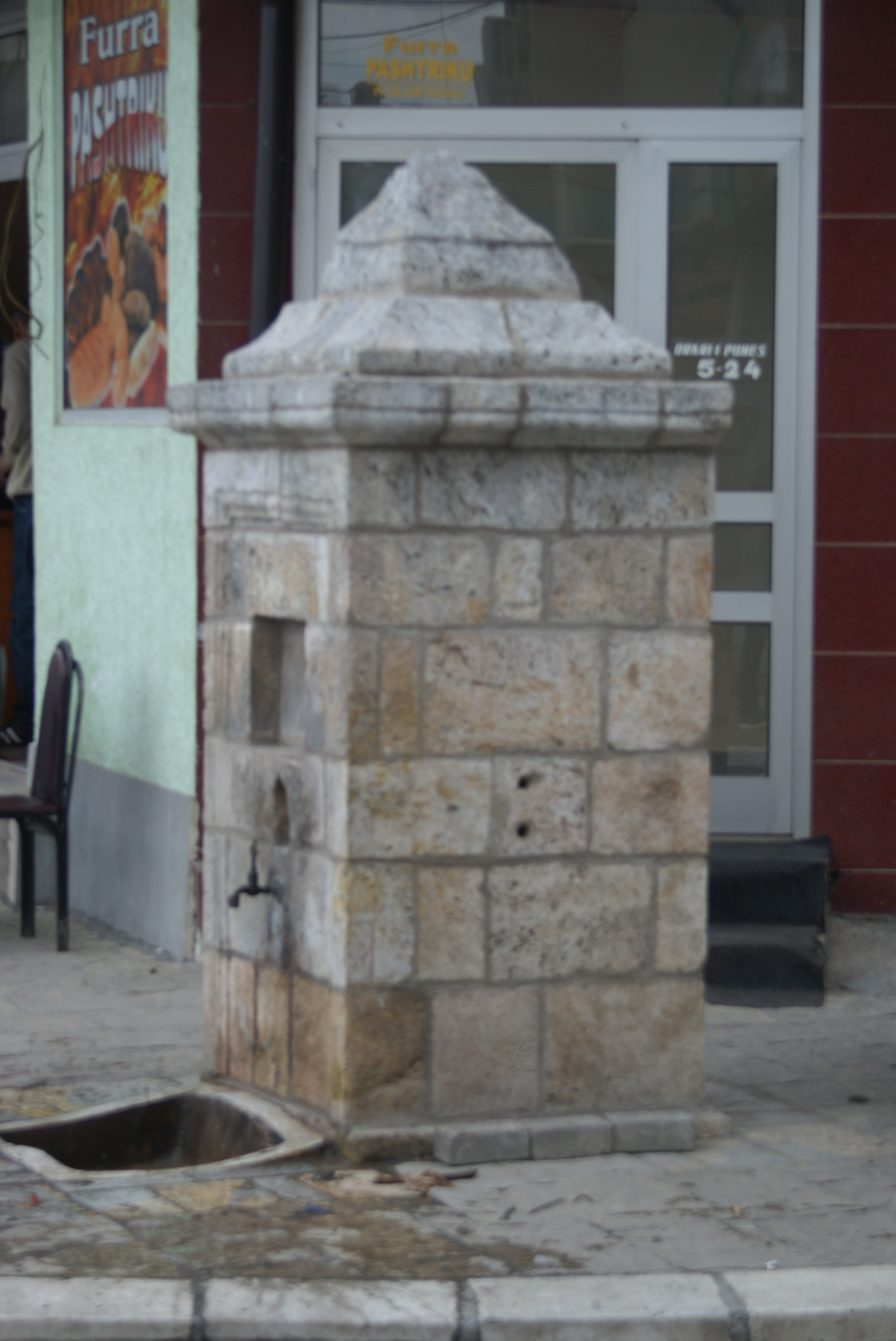 Kroi i Bimbashit